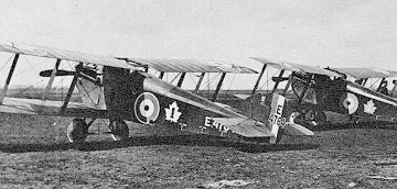 Sopwith Dolphins from No. 1 Fighter Squadron of the Canadian Air Force in England in December 1918